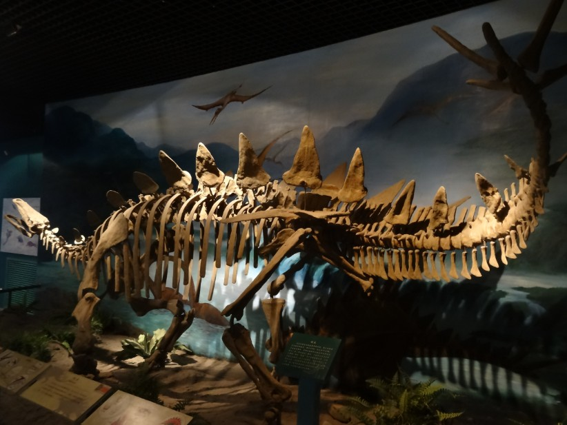 Stegosaurus fossil, now on display in the Gansu Provincial Museum